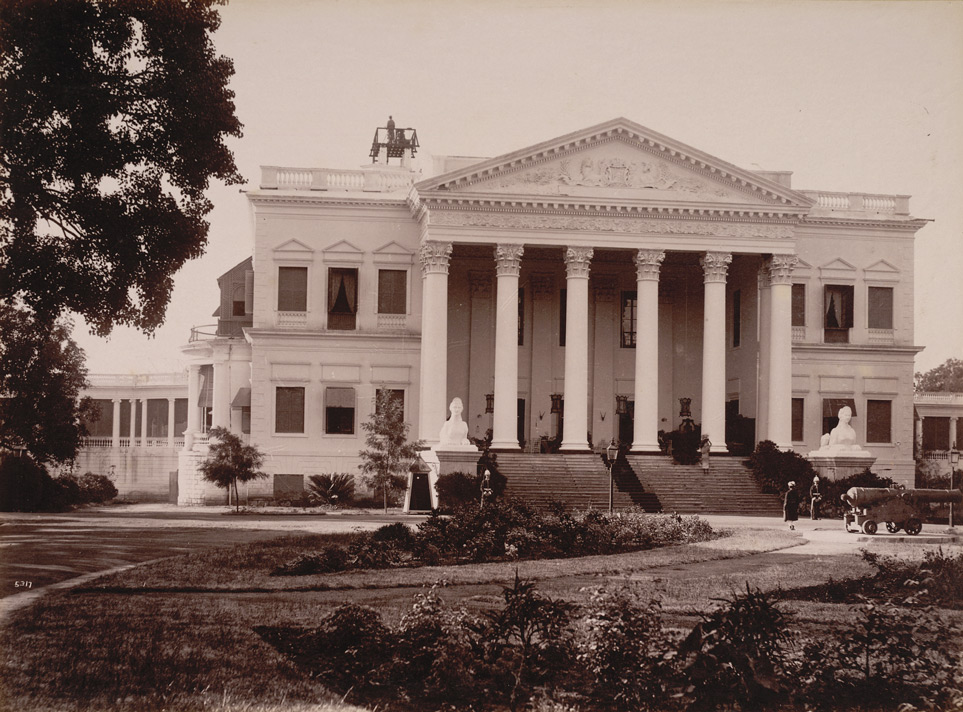 Photograph of the British Residency in Hyderabad, taken by Deen Dayal . The Residency was designed by Samuel Russell, son of the artist John Russell (1744-1806) and was built between 1803 and 1806. The construction was paid for by the Nizam of Hyderabad. This is a view of the front of the building with its Corinthian portico crowned by a pediment showing the arms of the East India Company. Colossal lion sculptures flank the steps up to the entrance